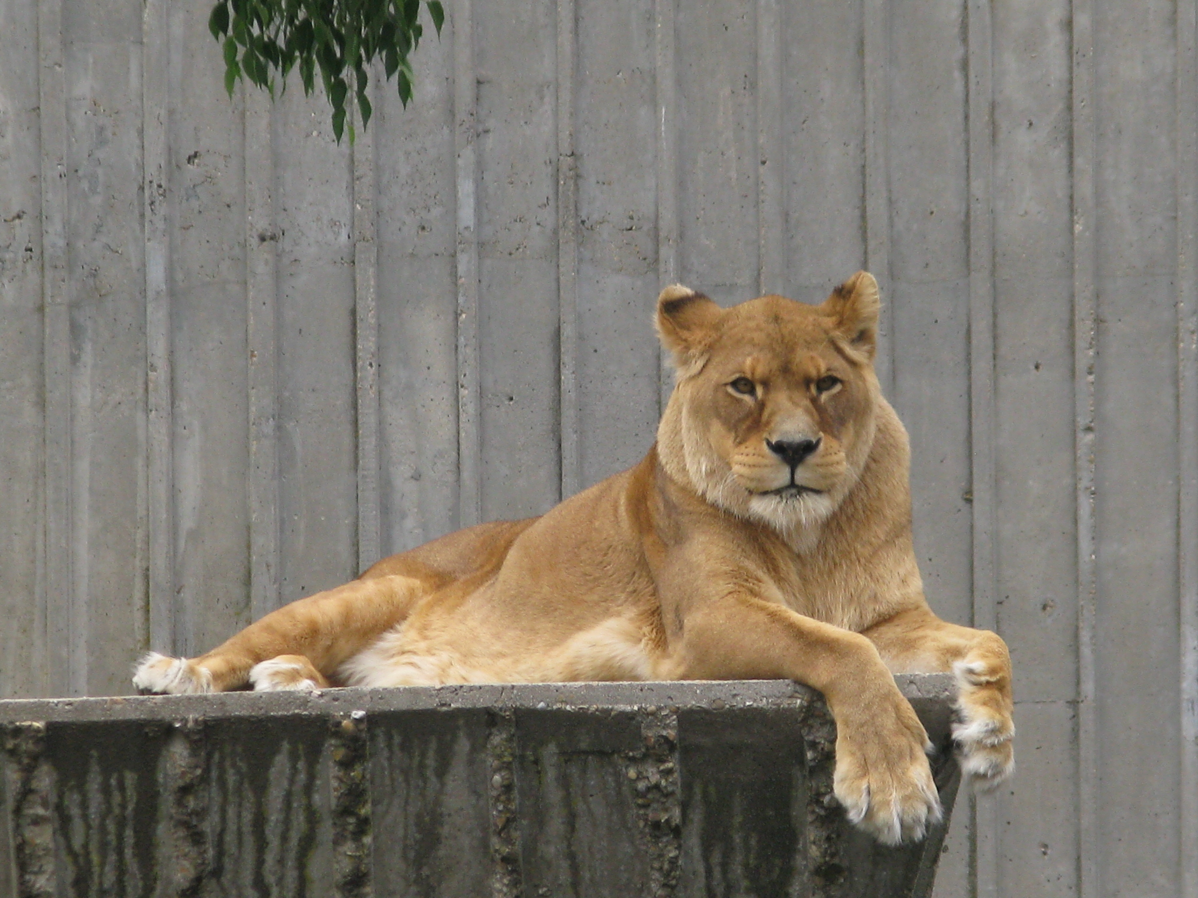 Female barbary lion (Panthera leo leo), at Madrid Zoo.